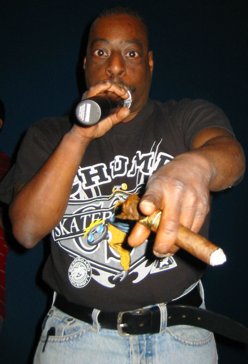 Photo by Paul Rudman